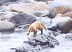 Martes melampus melampus. The photo was taken in Hakkōda, Aomori prefecture, Japan.